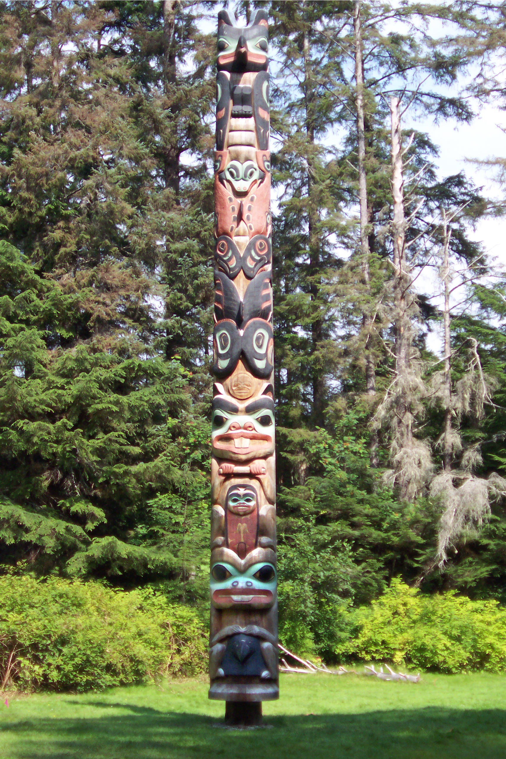 The K'alyaan Totem Pole of the Tlingit Kiks.ádi Clan, erected to commemorate those lost in the 1804 Battle of Sitka. Photograph by Robert A. Estremo, copyright 2005.